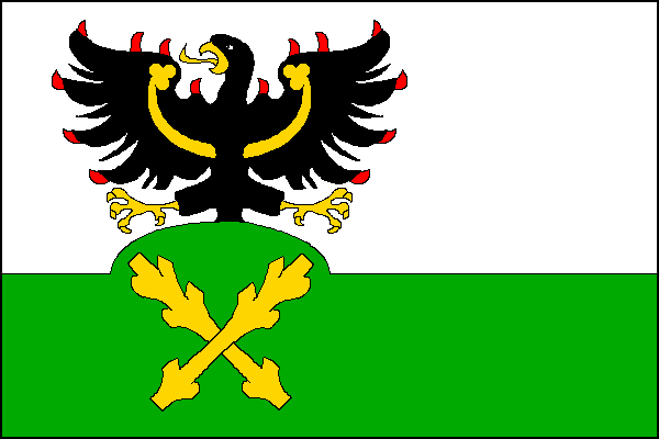 Municipal flag of Kublov village, Beroun District, Czech Republic